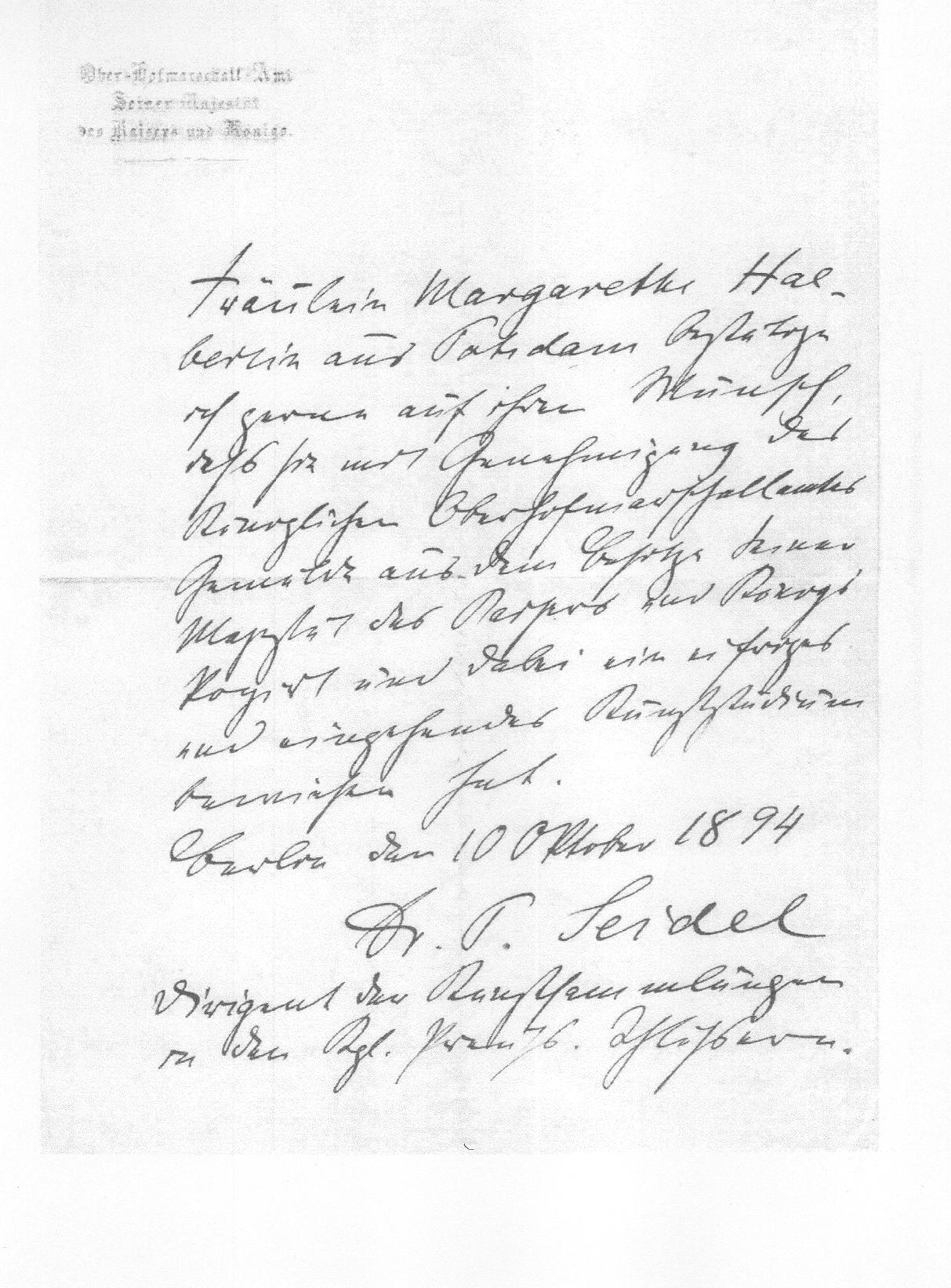 Certification to Margarete Haeberlin; issued by Paul Seidel. Grand Marshal Office of His Majesty the Emperor and King, Berlin 1894